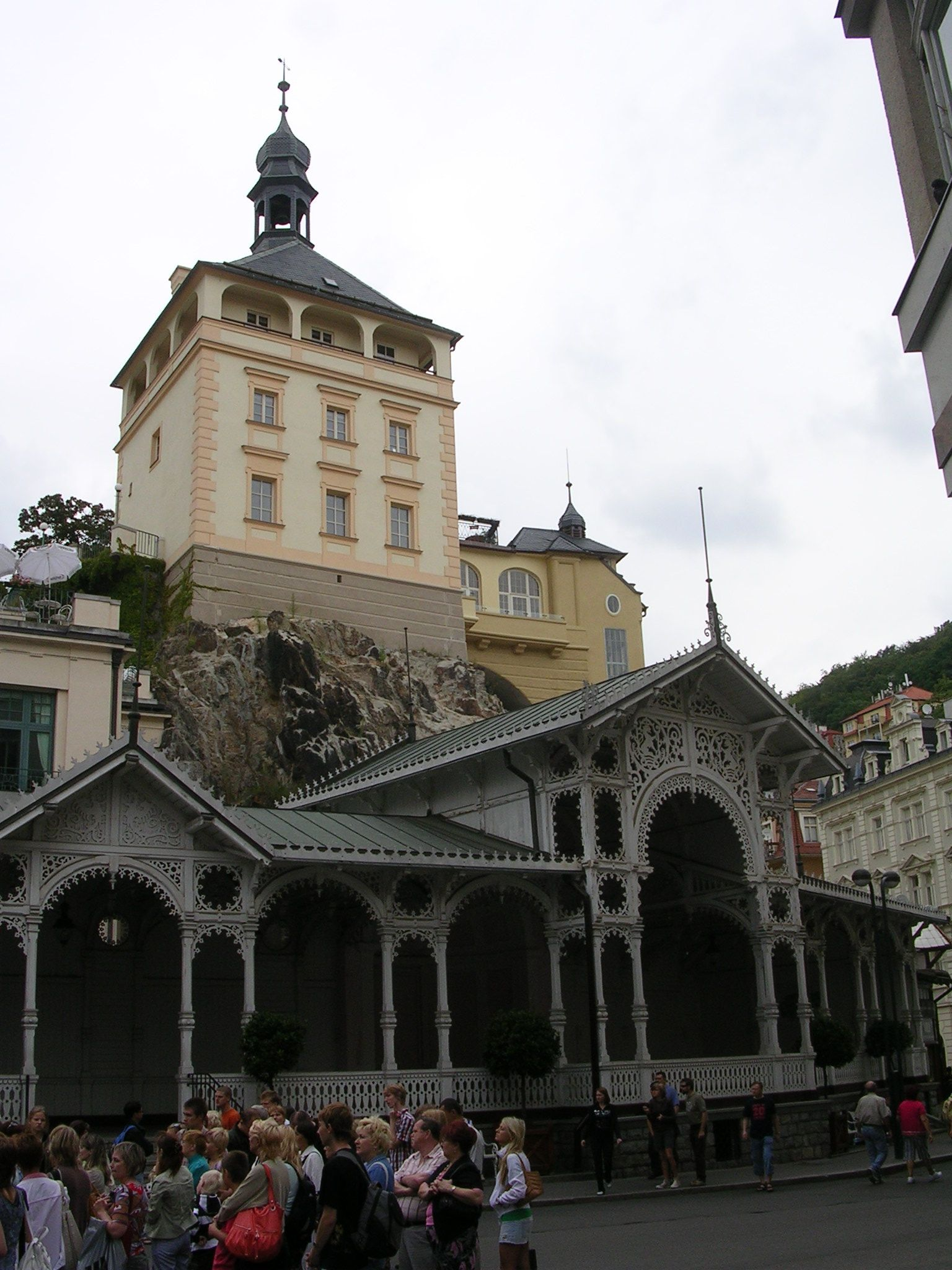 Karlovy Vary, the Czech Republic. Tržní Colonnade and Zámecká Tower.